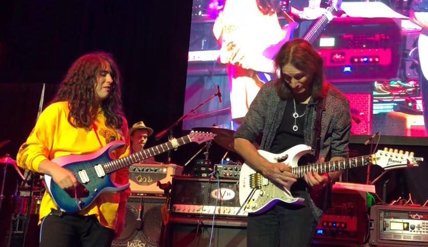 Hedras performing with Steve Vai, 2018.